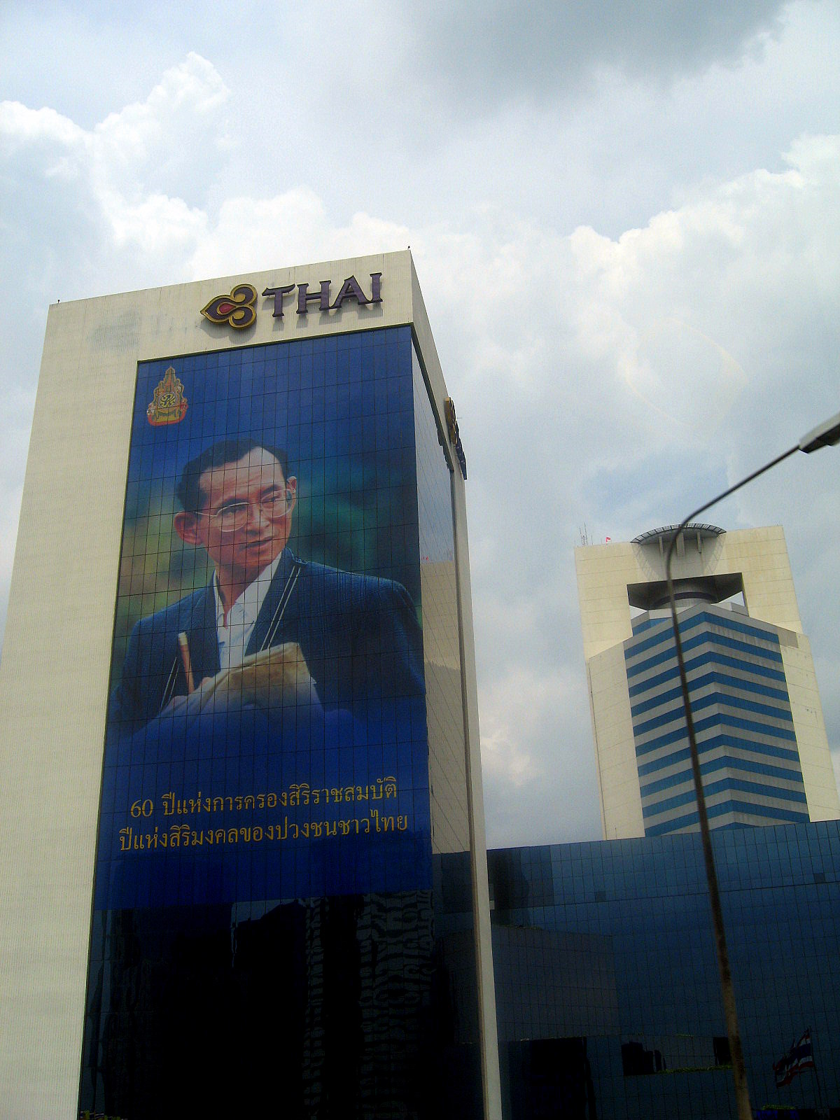 Thai Airways International Building. Taken by Terence Ong in June 2006.